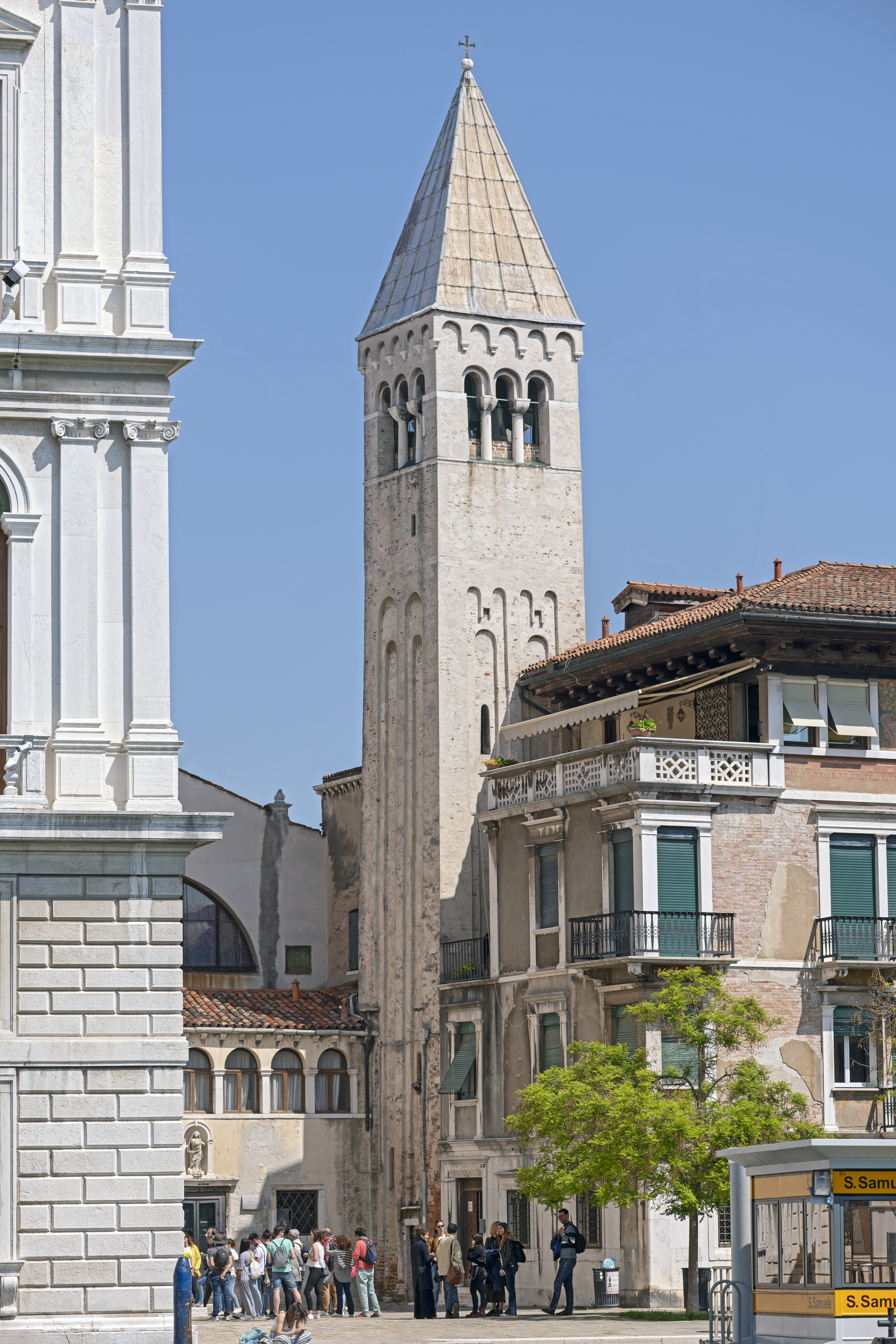 Church San Samuele in Venice - Venetian-Byzantine bell tower, dating back to the 12th century.